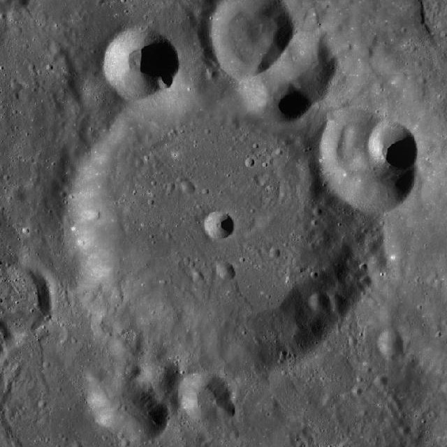 Nobel, on the far side of the moon. Mosaic of LRO WAC images.